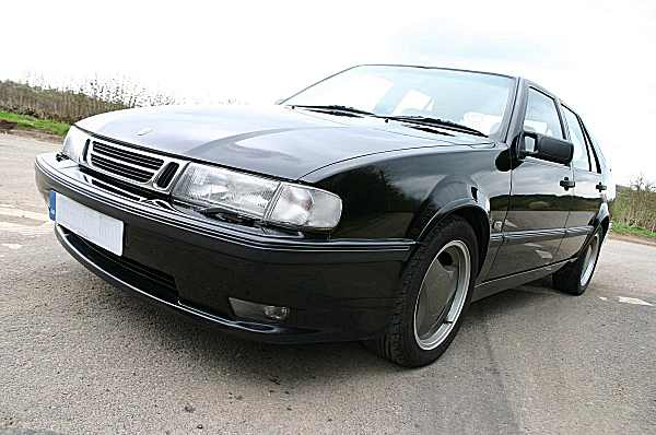 Photo of a slightly customized Saab 9000.